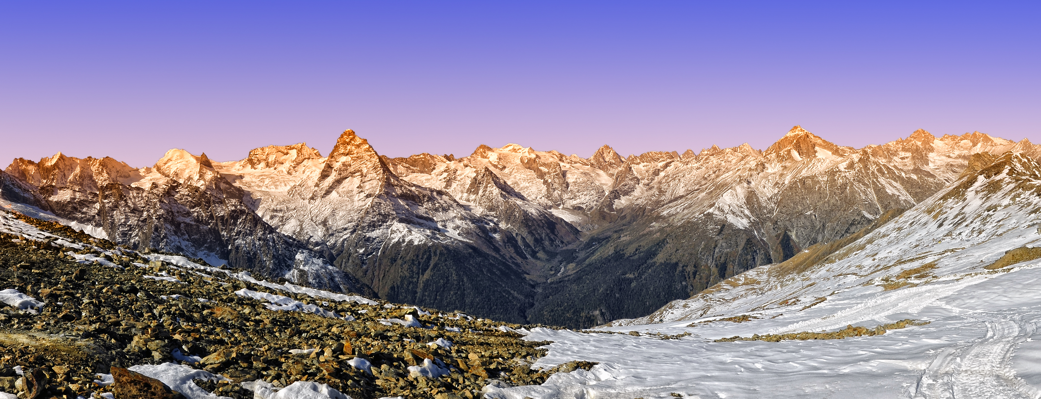 Panorama Dombay